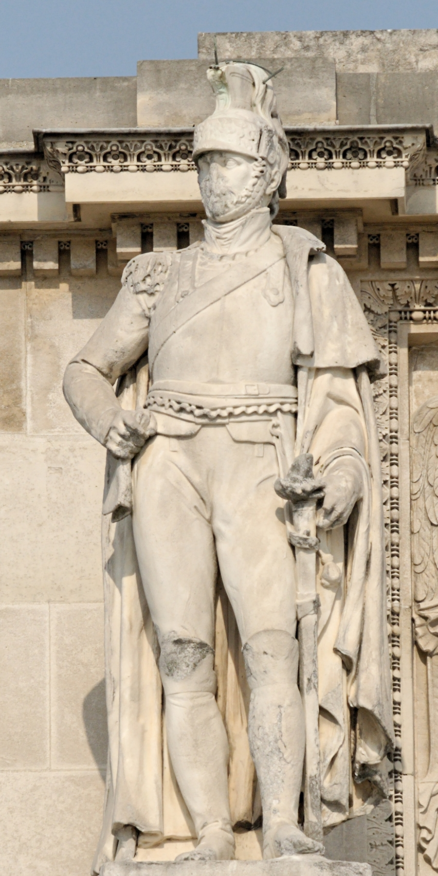 Cuirassier, by Charles Auguste Taunay (1768-1824). Marble, statue from the entablement of the Arc de Triomphe du Carrousel (Louvre side), 1806-1808.